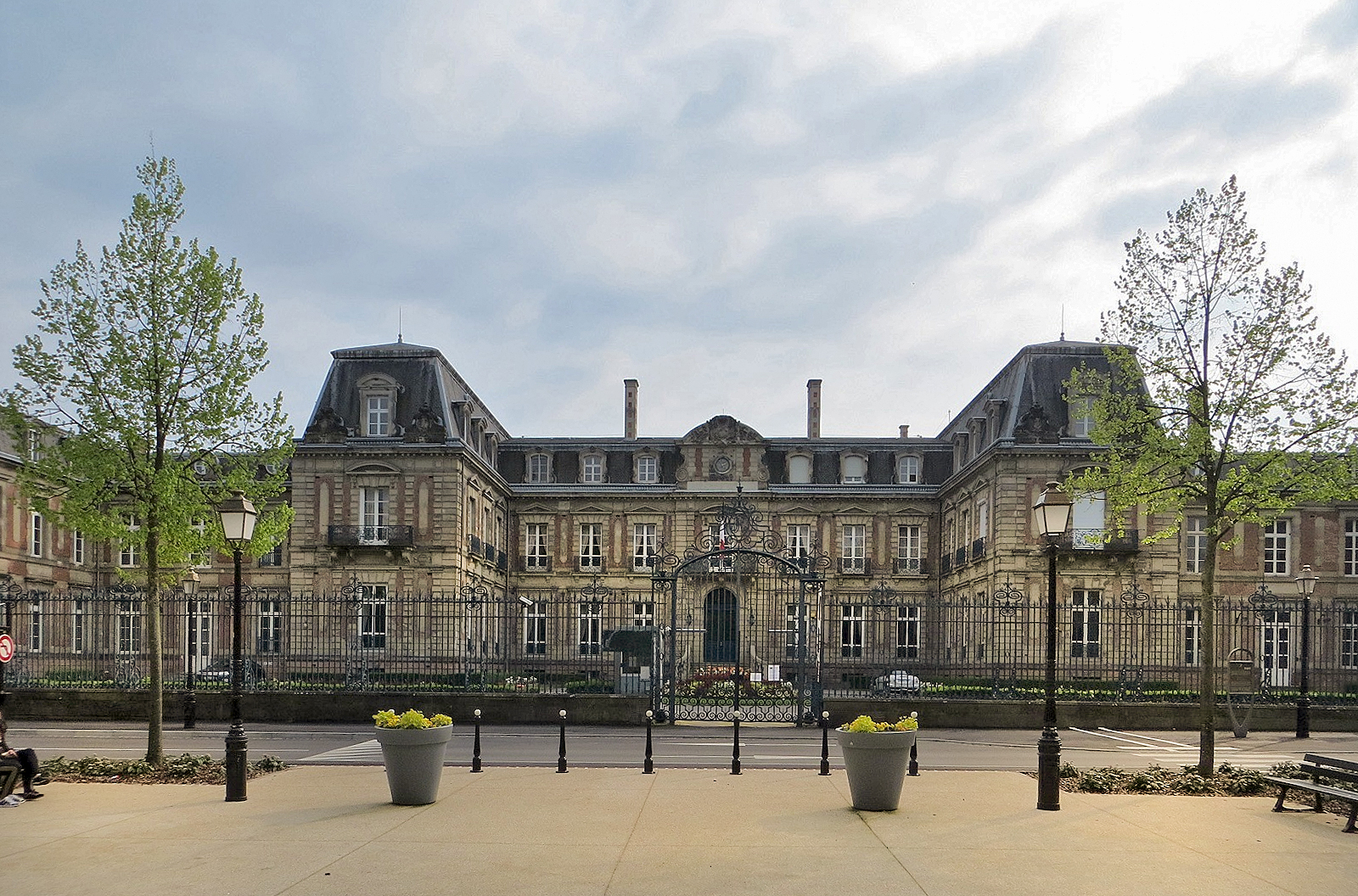 Prefecture of Haut-Rhin at 7 rue Bruat in Colmar (Haut-Rhin, France).